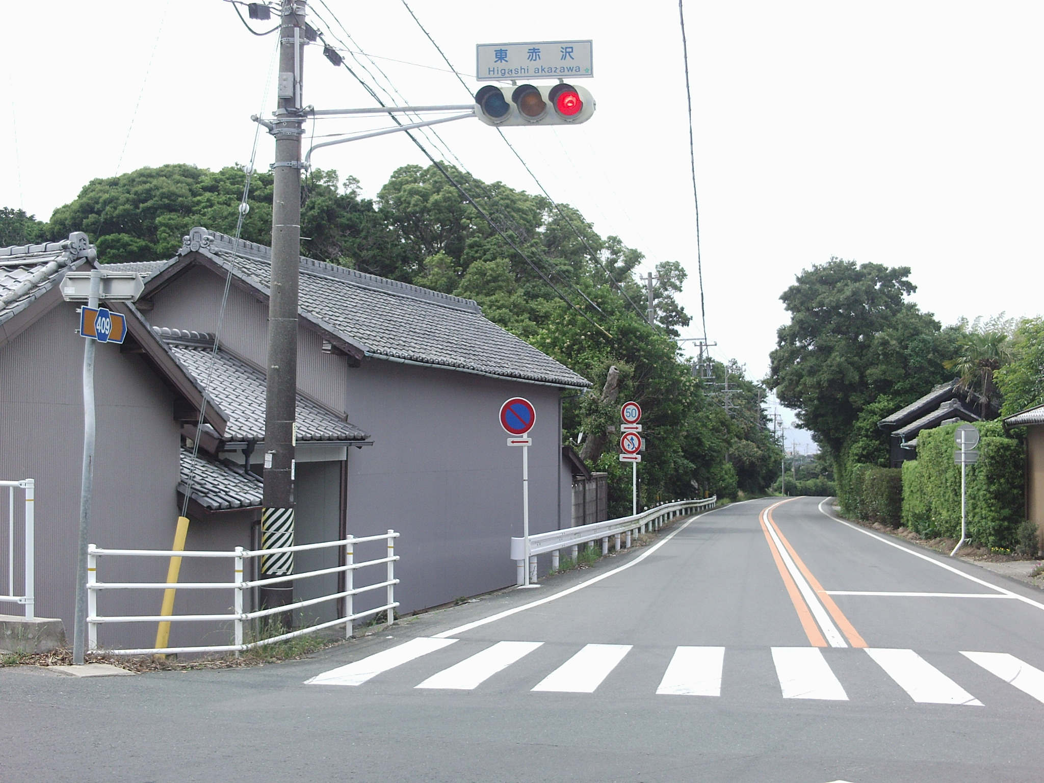 Aichi prefectural road No.409 in Higashiakasawacho, Toyohashi, Aichi.